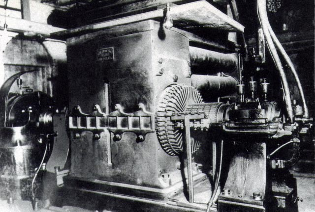 Edison's "Jumbo" dynamo (named after a popular circus elephant) with 27 tons and an output power of 100 kW. Located in Edison's first electrical power plant, Pearl Street, New York City